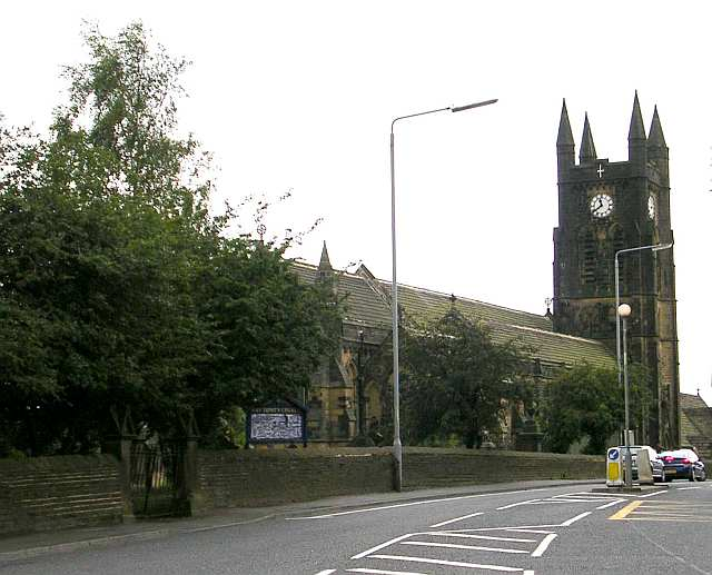 Holy Trinity Church - Chapel Street